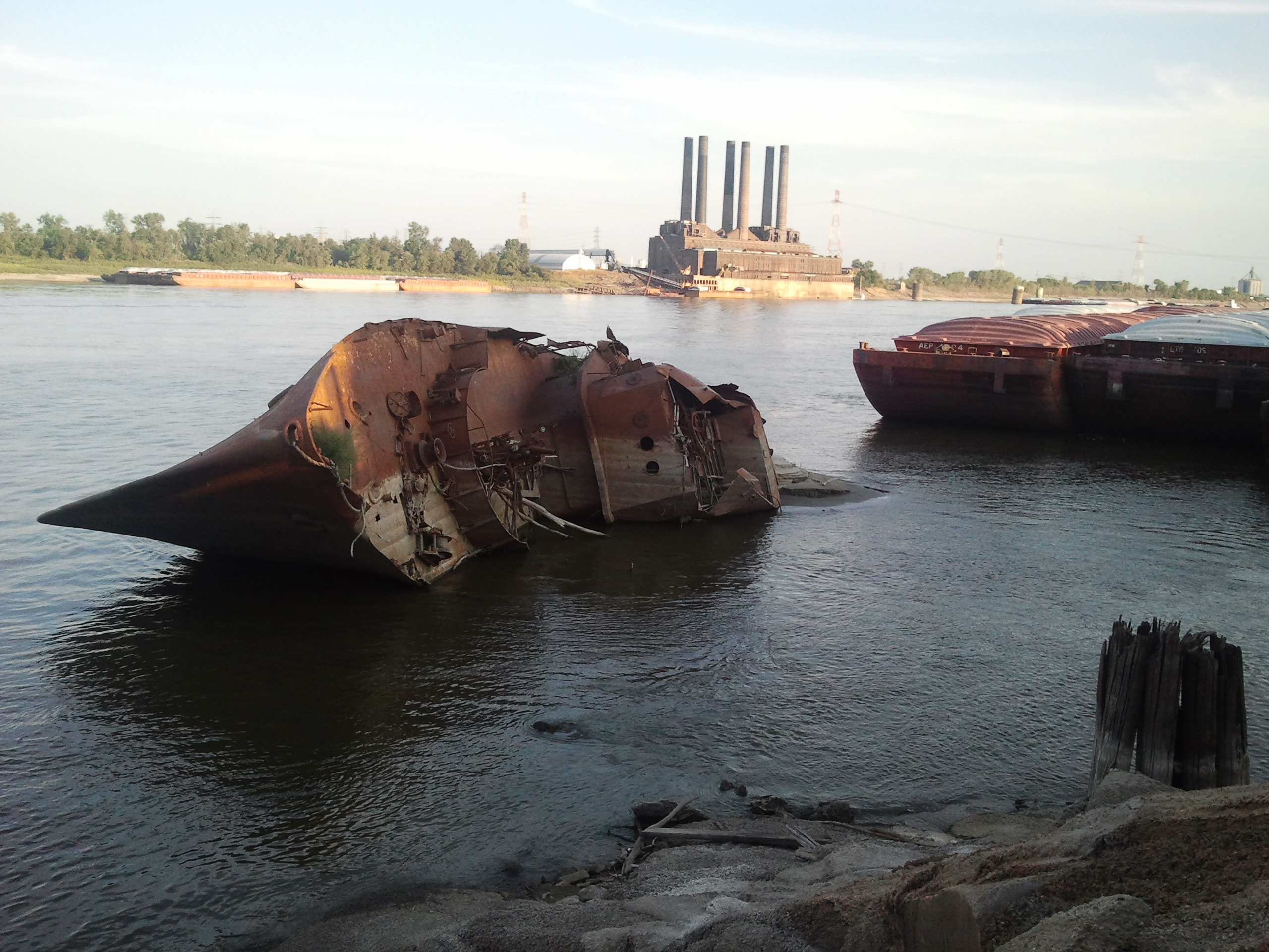 USS Inaugural, St. Louis, Missouri, photograph taken by me on 01AUG2012